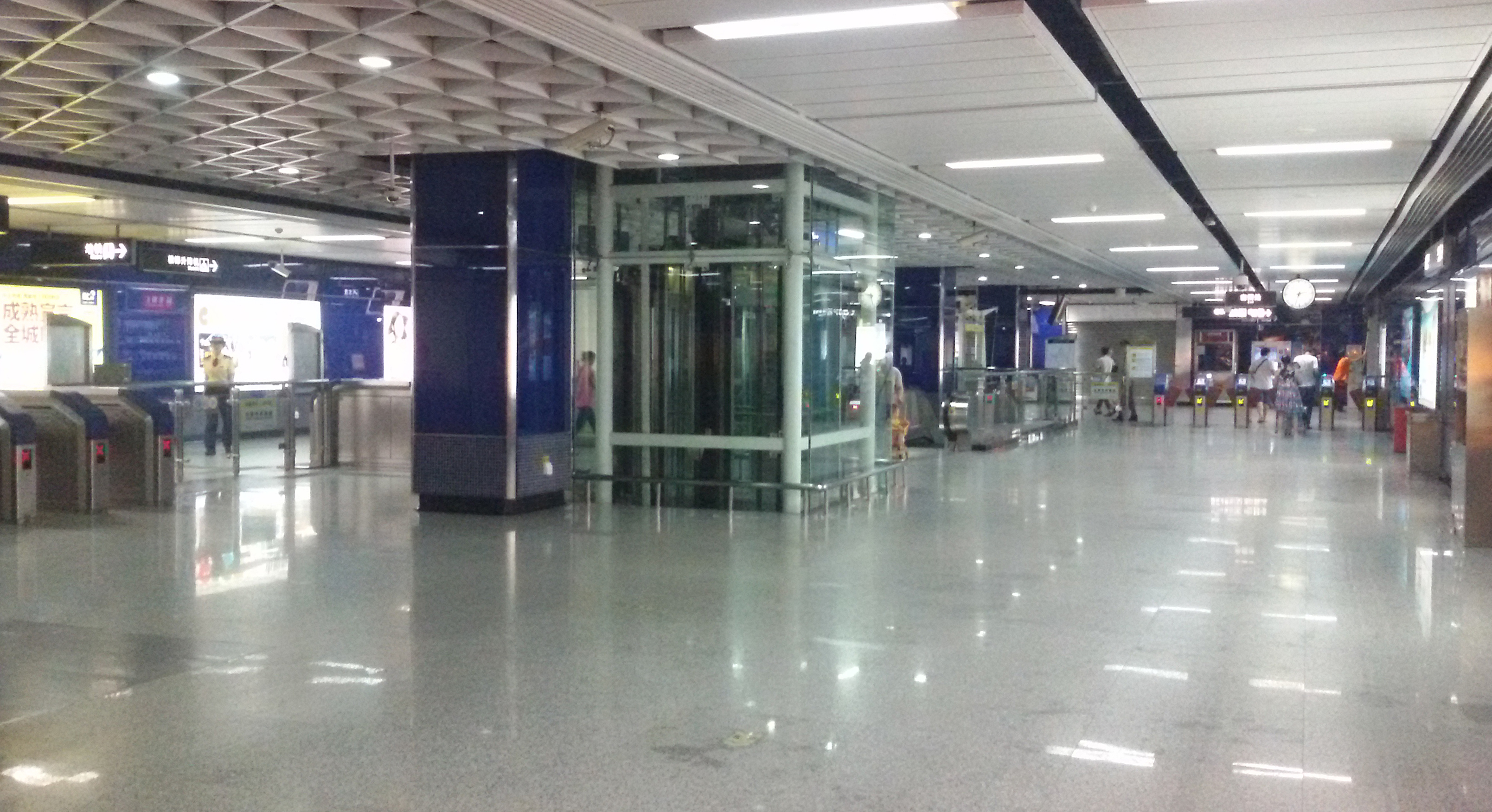 Station Concourse for Dongpu Station in Guangzhou Metro.